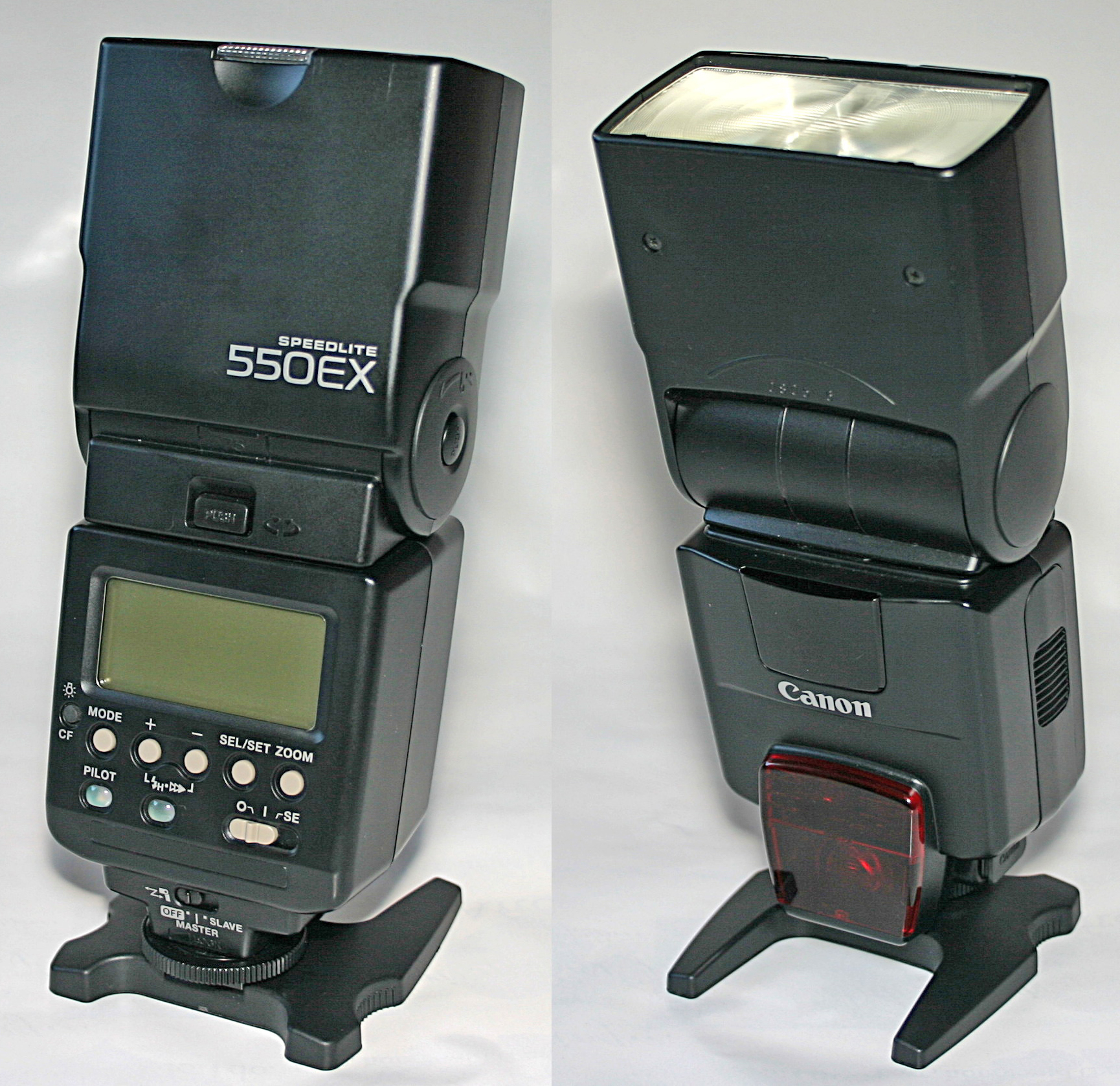 Canon Inc.'s Speedlite 550EX flash. User:Cburnett/image sig Category:Canon flashes